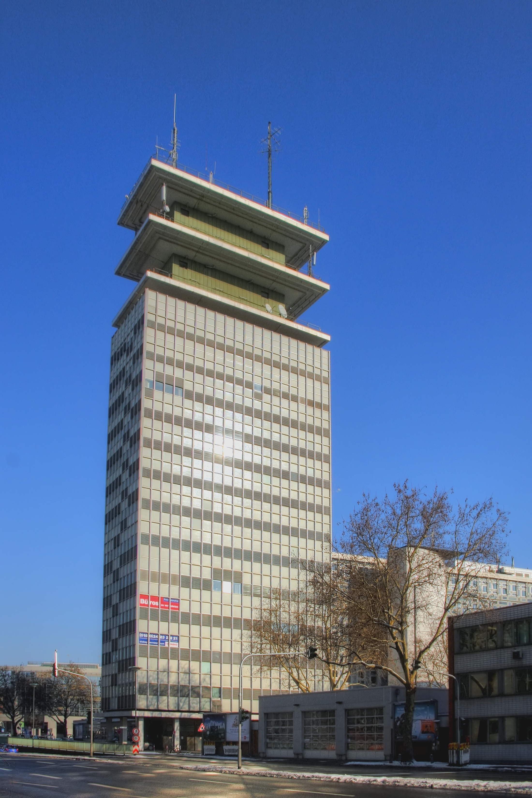 The former telecommunications office 1, Cologne. View from Neuköllner Str.